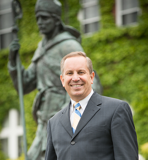 Steven R. DiSalvo, Ph.D. in front of Alumni Hall at Saint Anselm College in Goffstown, New Hampshire.